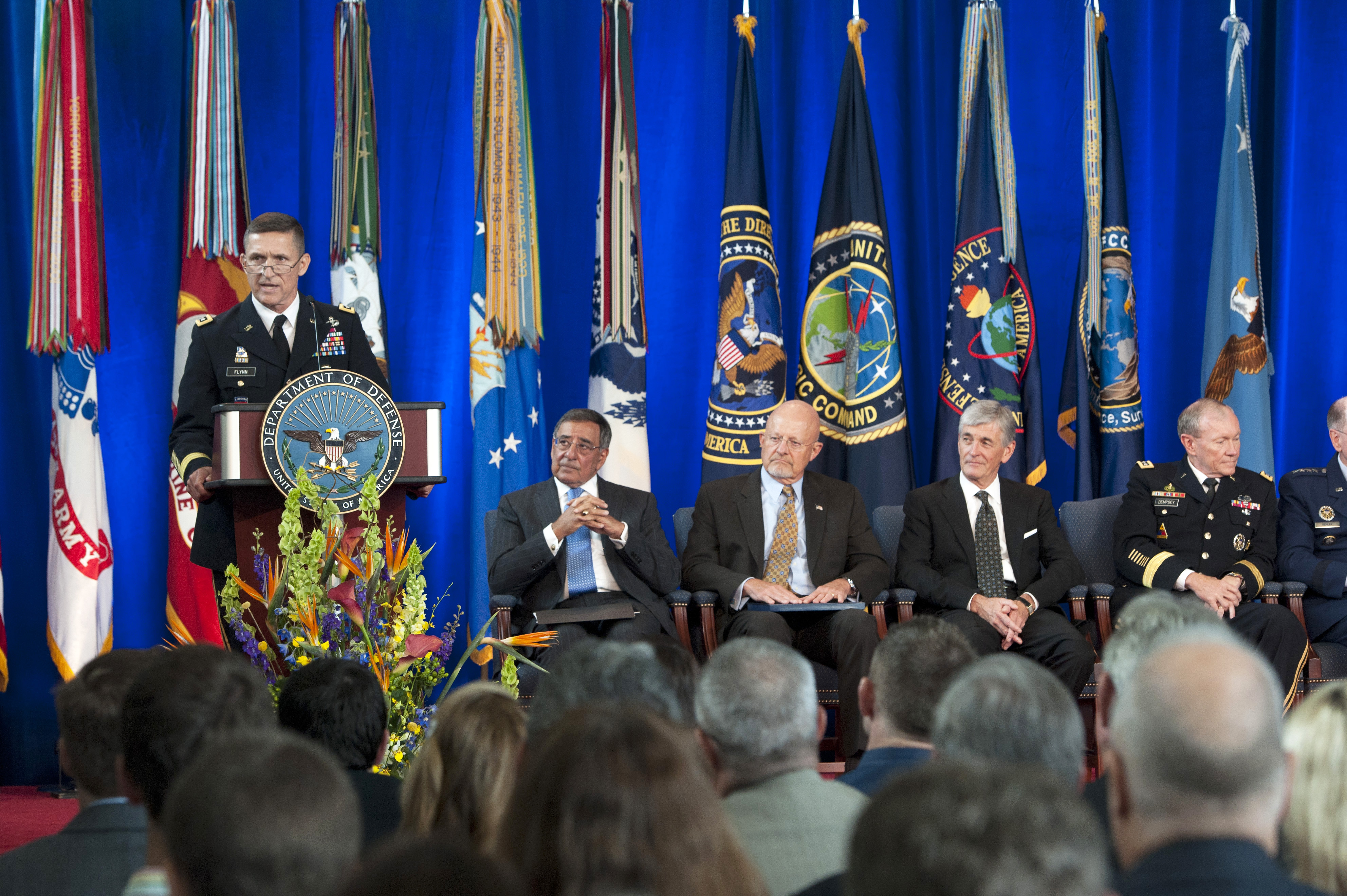 Army Lt. Gen. Michael T. Flynn speaks during the change of directorship for the Defense Intelligence Agency on Joint Base Anacostia-Bolling in Washington, D.C., July 24, 2012.